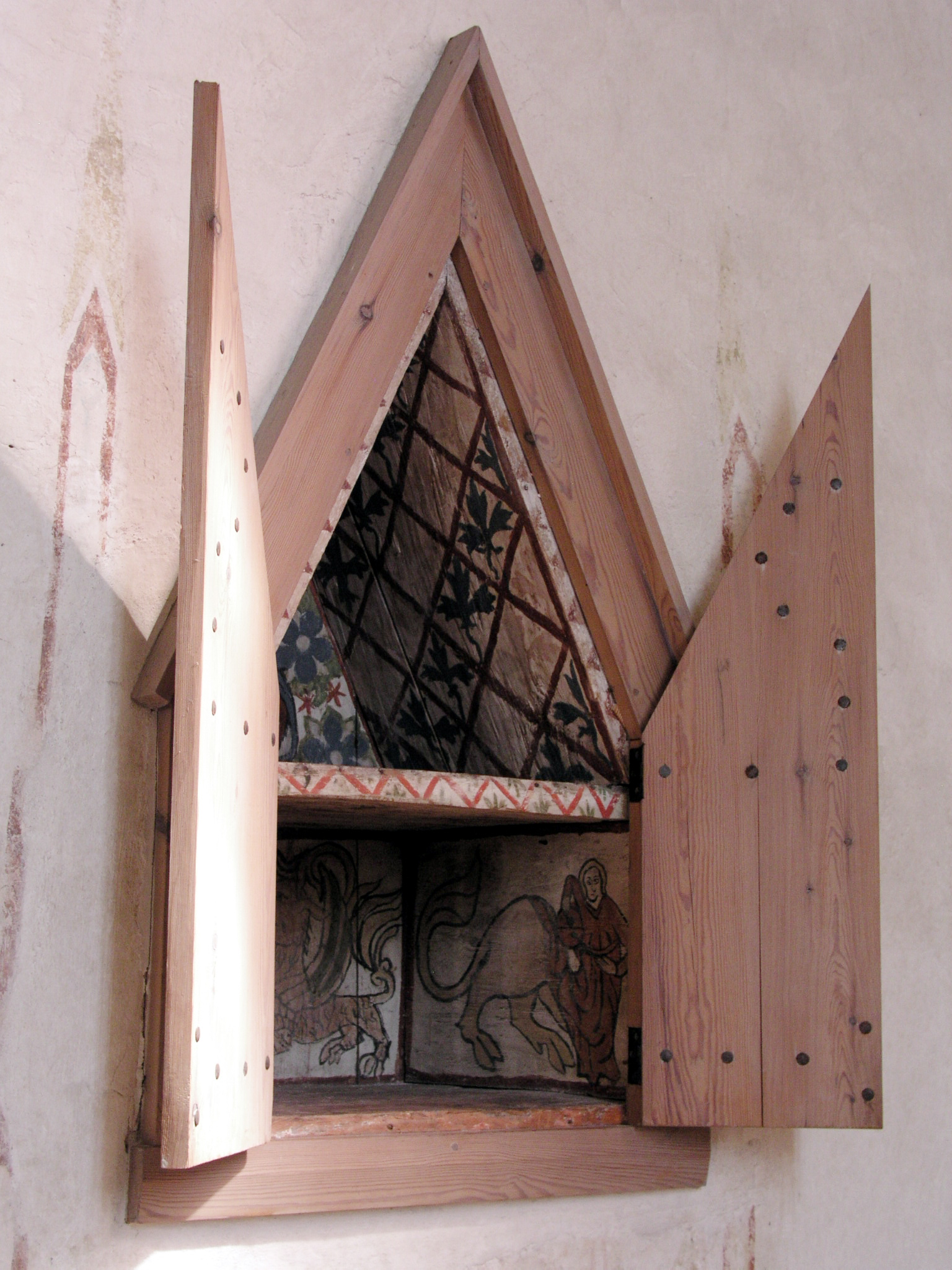 Garda (Garde) kyrka / Garda (Garde) church is situated at Garde, Gotland, Sweden